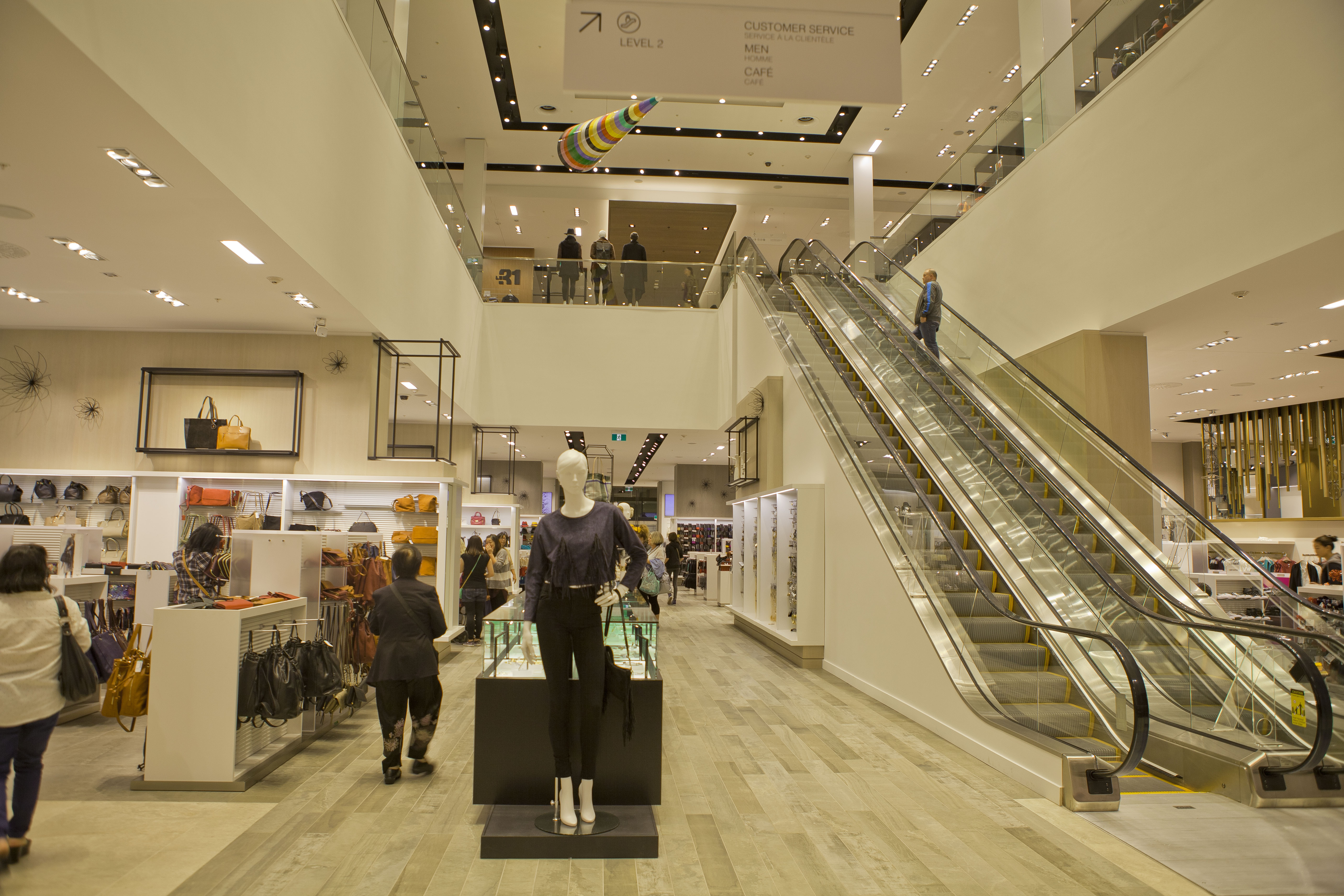 La Maison Simons store in Park Royal mall, West Vancouver.